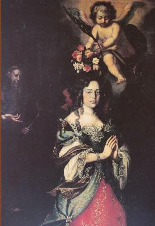 Maria Francisca of Savoy, Queen of Portugal